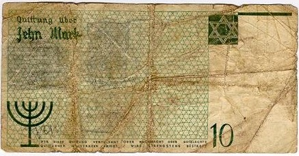 Concentration camp scrip from Ghetto Litzmannstadt